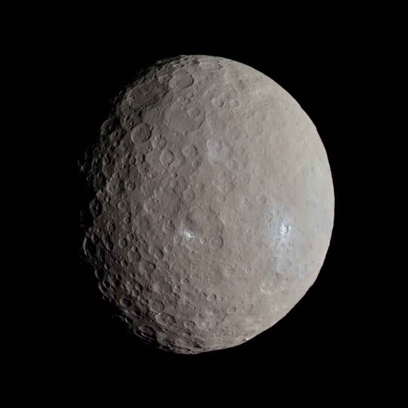 Ceres in true color taken by Dawn on May 4, 2015. Oxo Crater, Haulani Crater, and Ahuna Mons are visible.